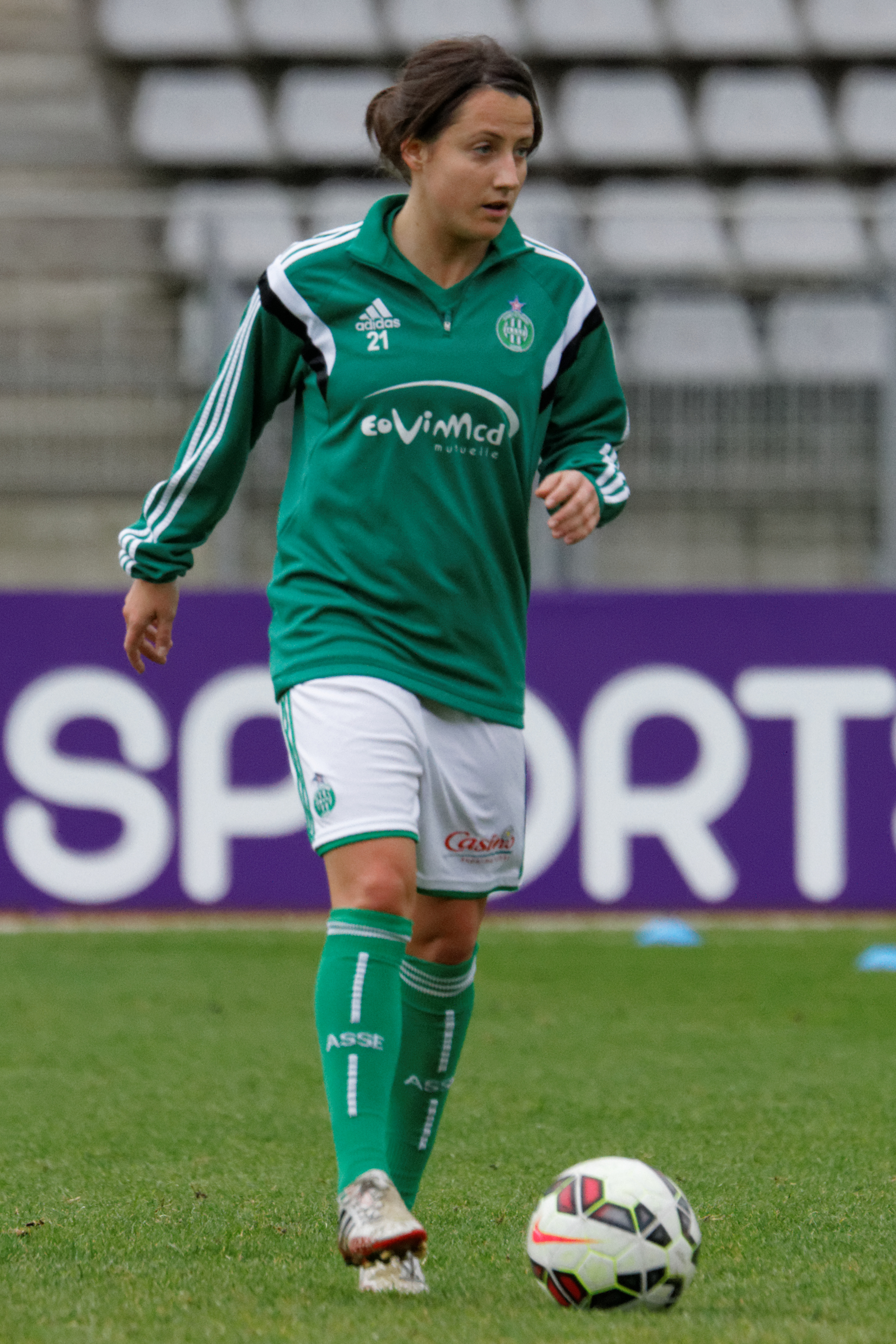 D1, PSG vs Saint-Étienne, 16 November 2014